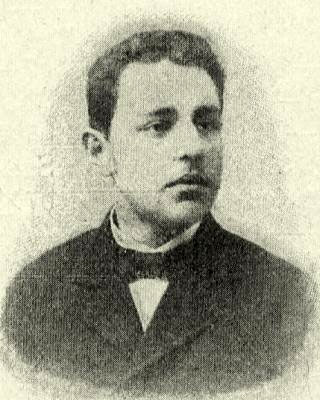 Ossip Bernstein, chess player, (1882-1962). The picture was probably taken at Berlin not later than 1902.